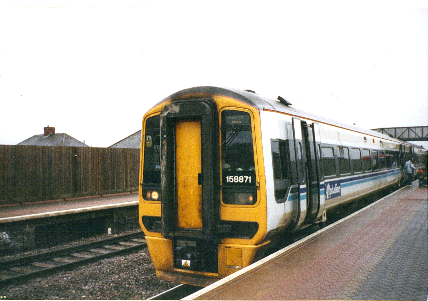 Wales and West Class 158 unit 158871 at Pyle (Y Pil).